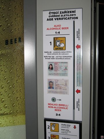 Age verification.